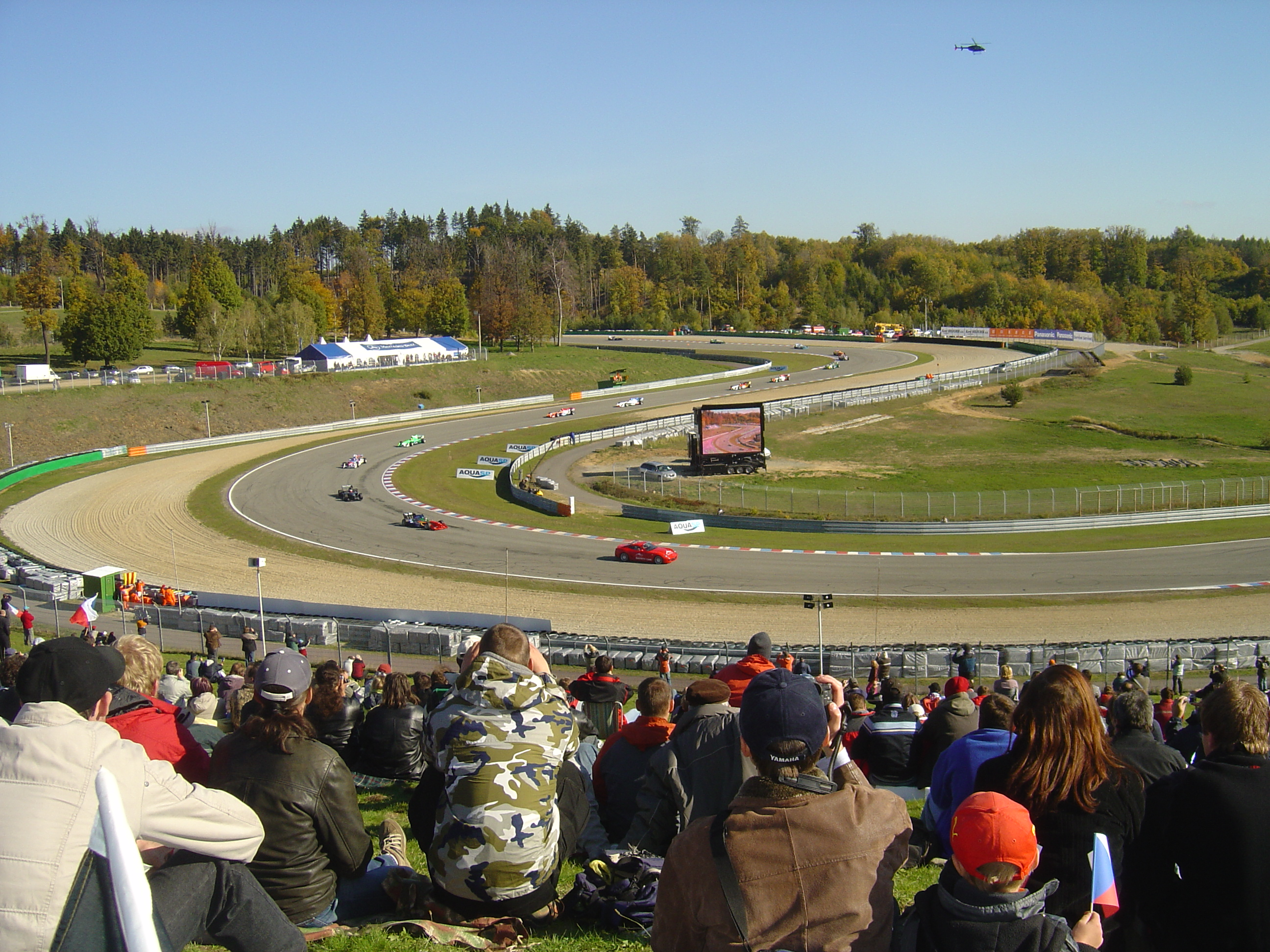 Omega bend of the Automotodrom Brno: the photo was taken during 2007's A1GP race weekend